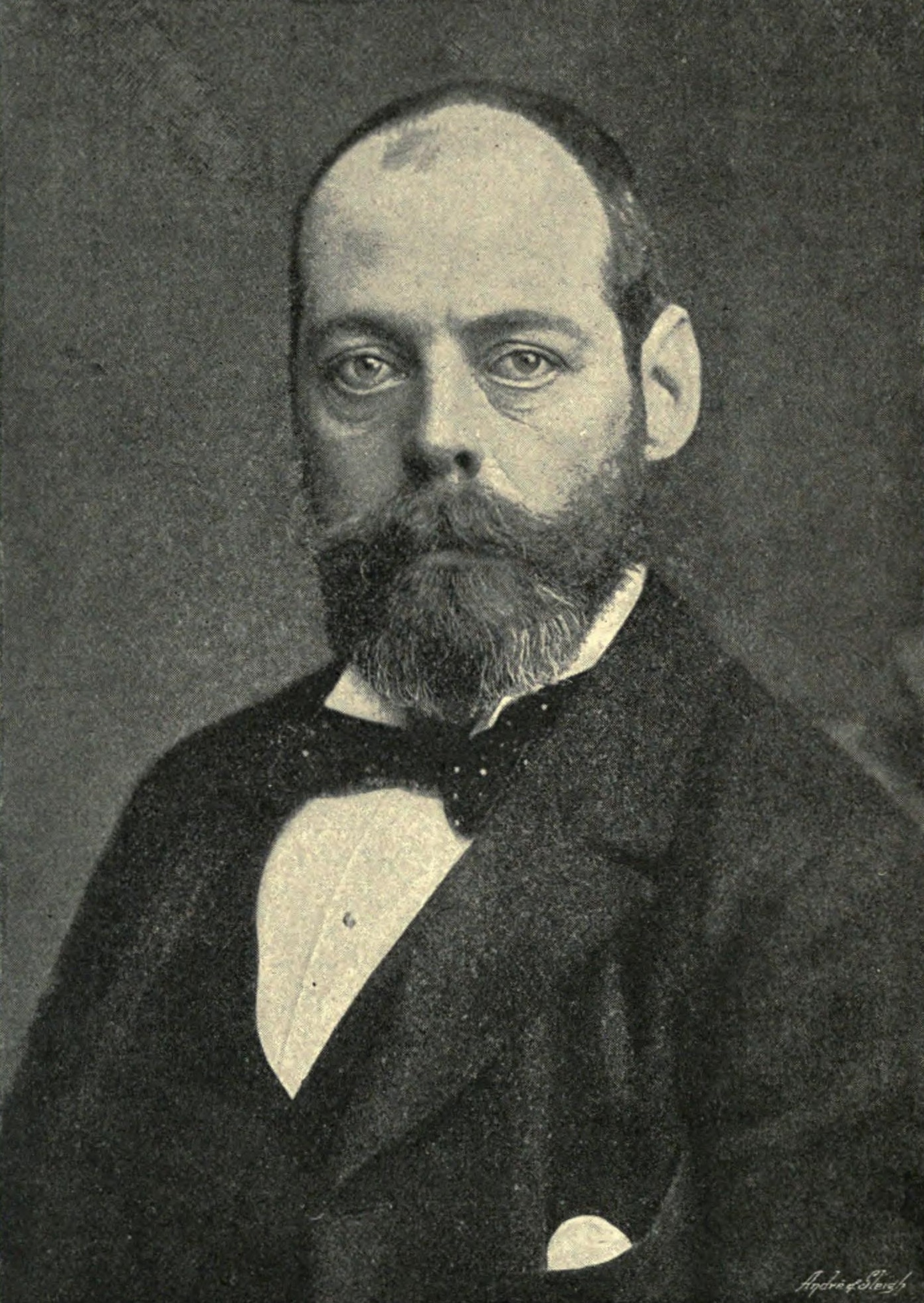 Portrait of Lord Randolph Churchill